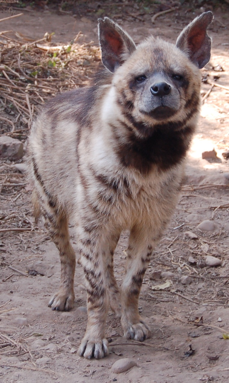 A striped hyena at a zoo in Nepal